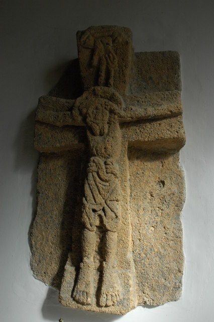 Stone crucifix, Wormington Church This carved stone crucifix mounted in the wall of Wormington church is Saxon, dating from around 1020-1050; it was found at Wormington Grange and is thought that it may originate from Winchcombe Abbey.